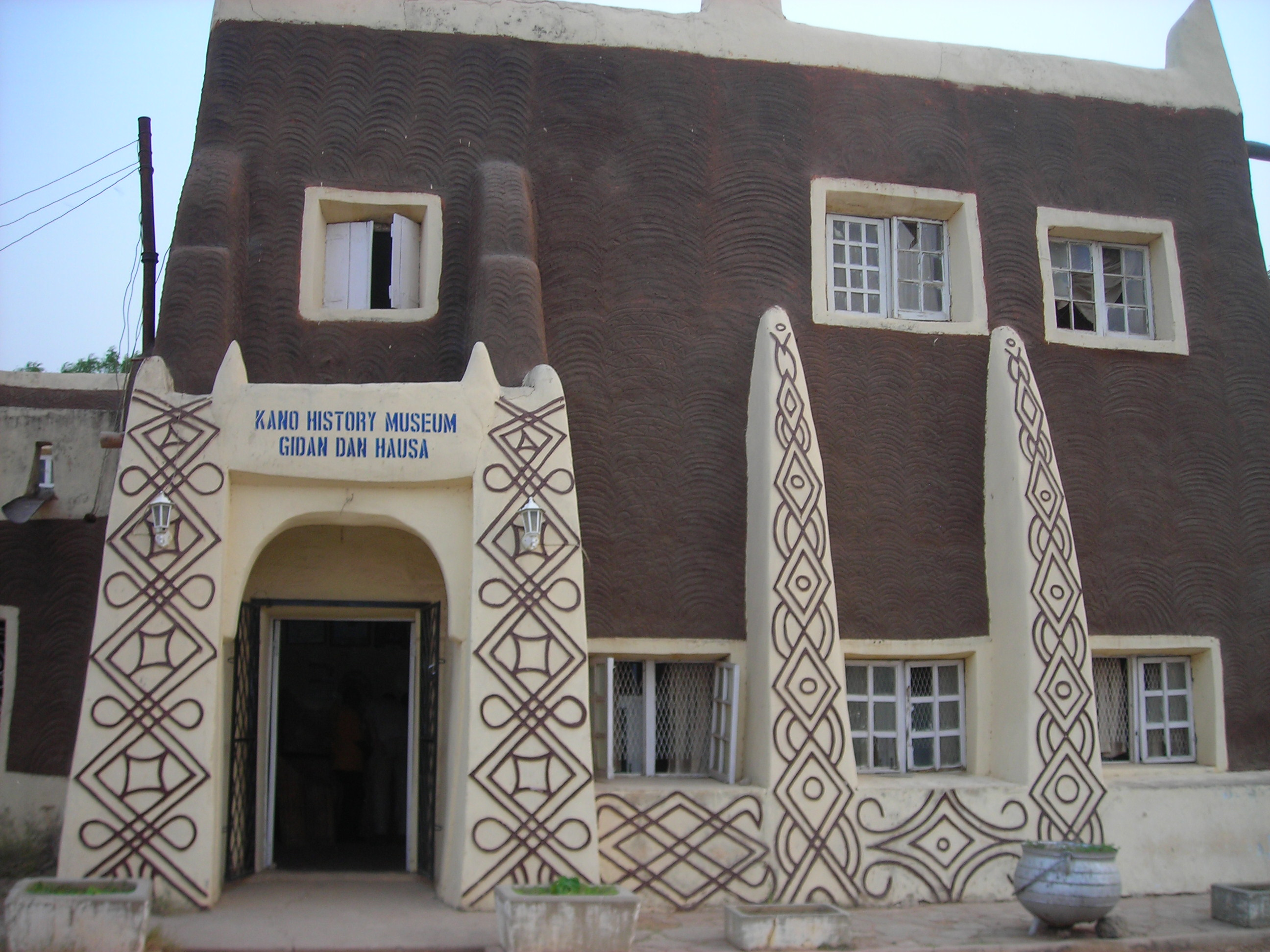 Kano History Museum, Gidan Dan Hausa. Kano, Nigeria. Photo by Jonathan Riddell March 2009.